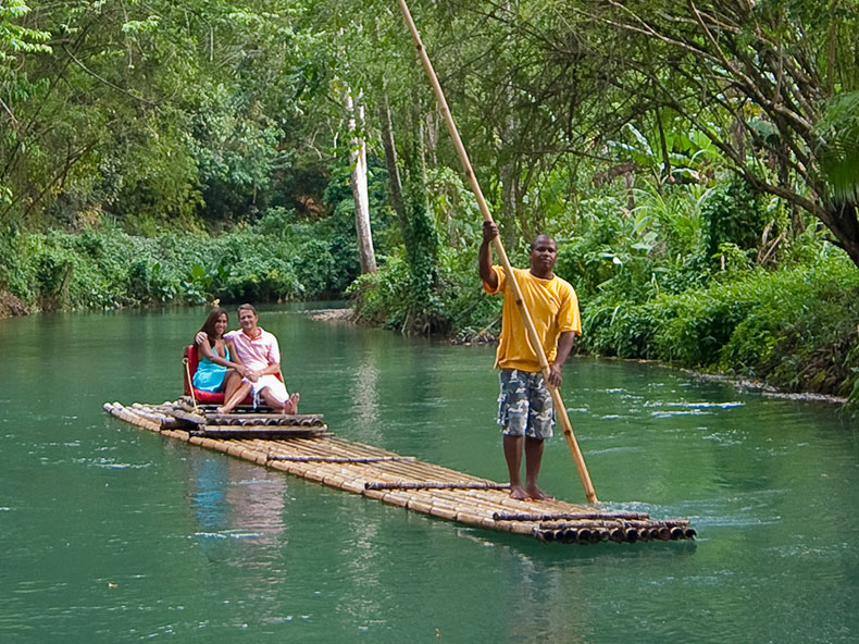 Falmouth, Jamaica, adventure tourism